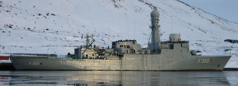 Danish Navy vessel F360 Hvidbjørnen dockside in Kangilinnguit (Grønnedal)